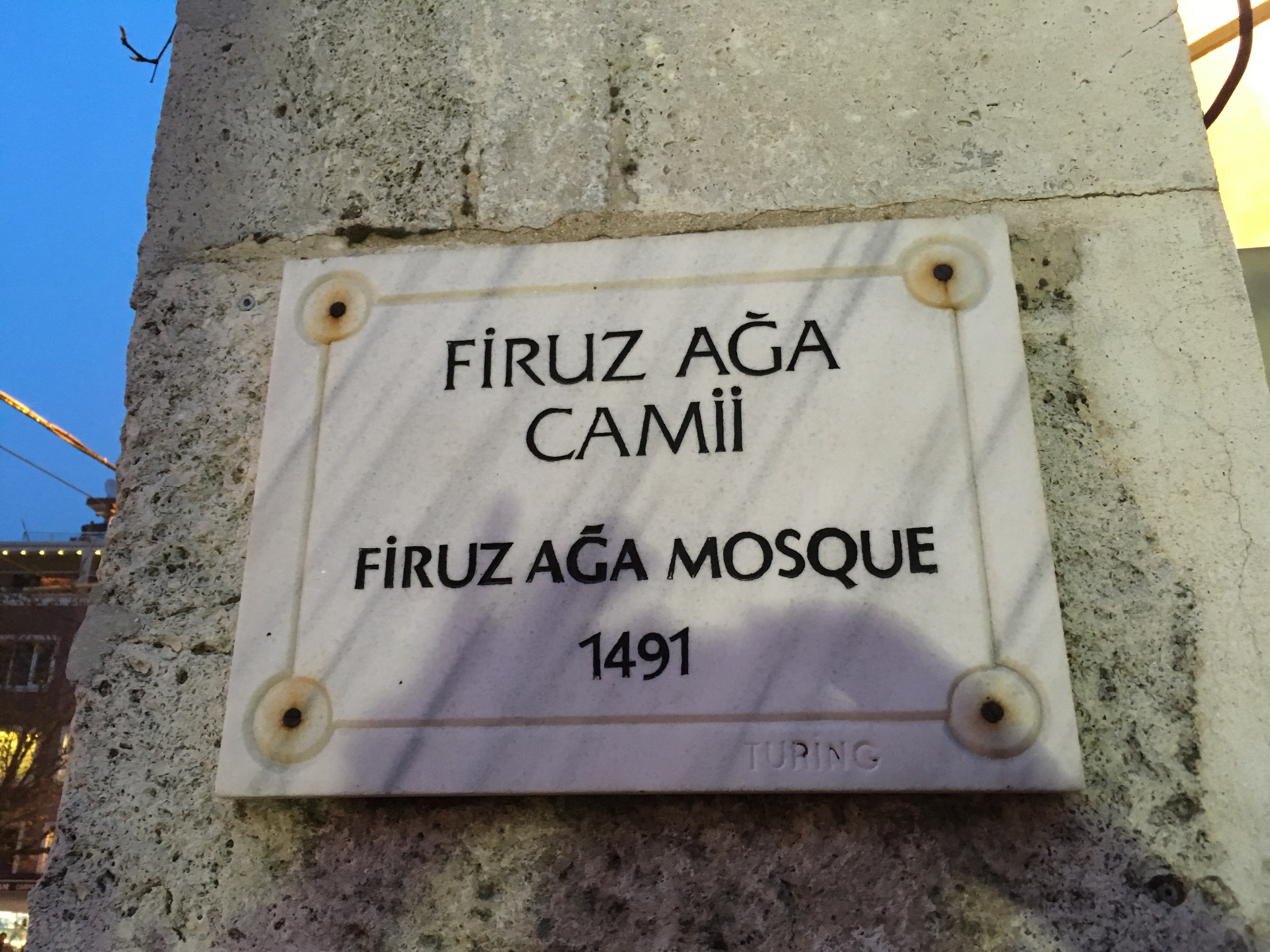 Istanbul, Turkey